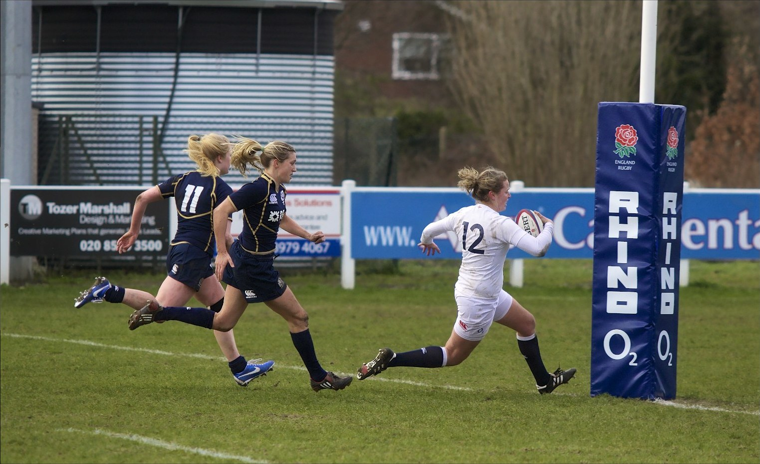 ..in goes Amber Reed, ahead of Annabel Sergeant and Megan Gaffney